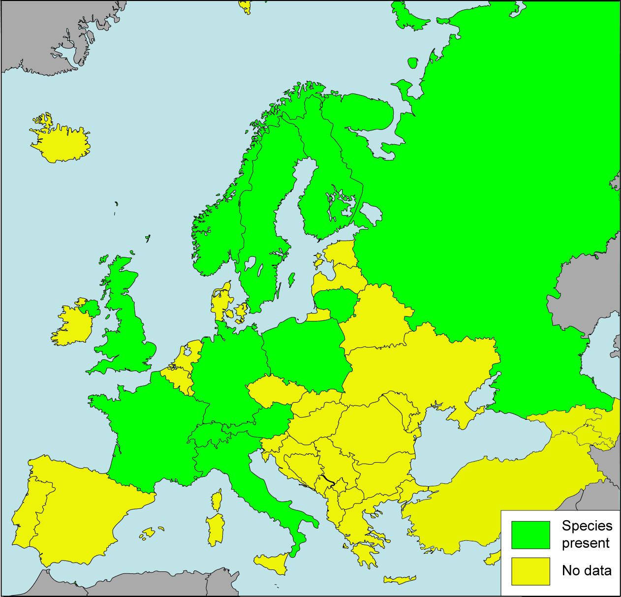 Pisidium conventus, freshwater bivalve species: presence in European countries based upon data from: Pisidium conventus